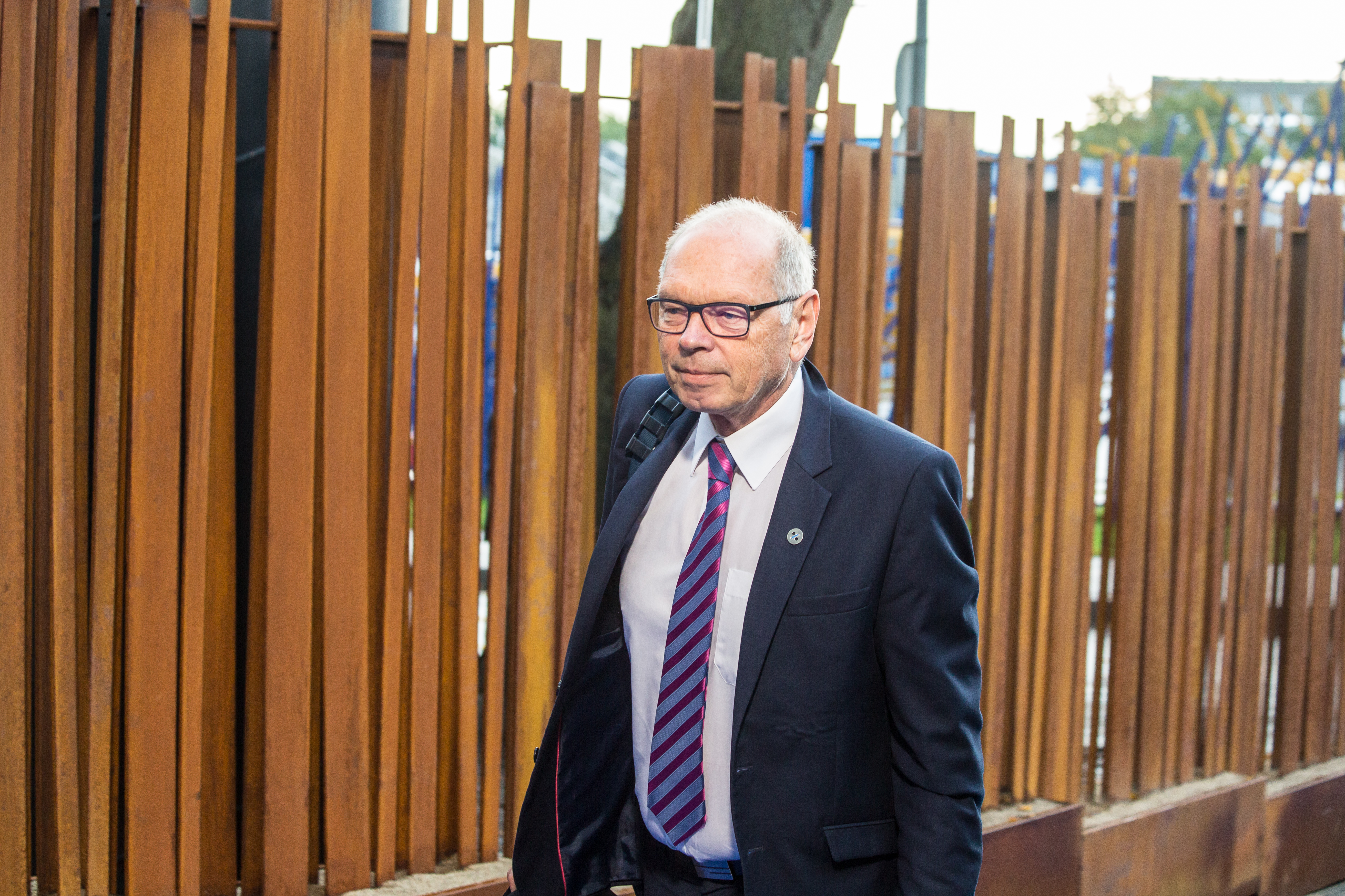 Ivan Pilný, Minister, Ministry of Finance, Czech Republic Photo: Aron Urb (EU2017EE)